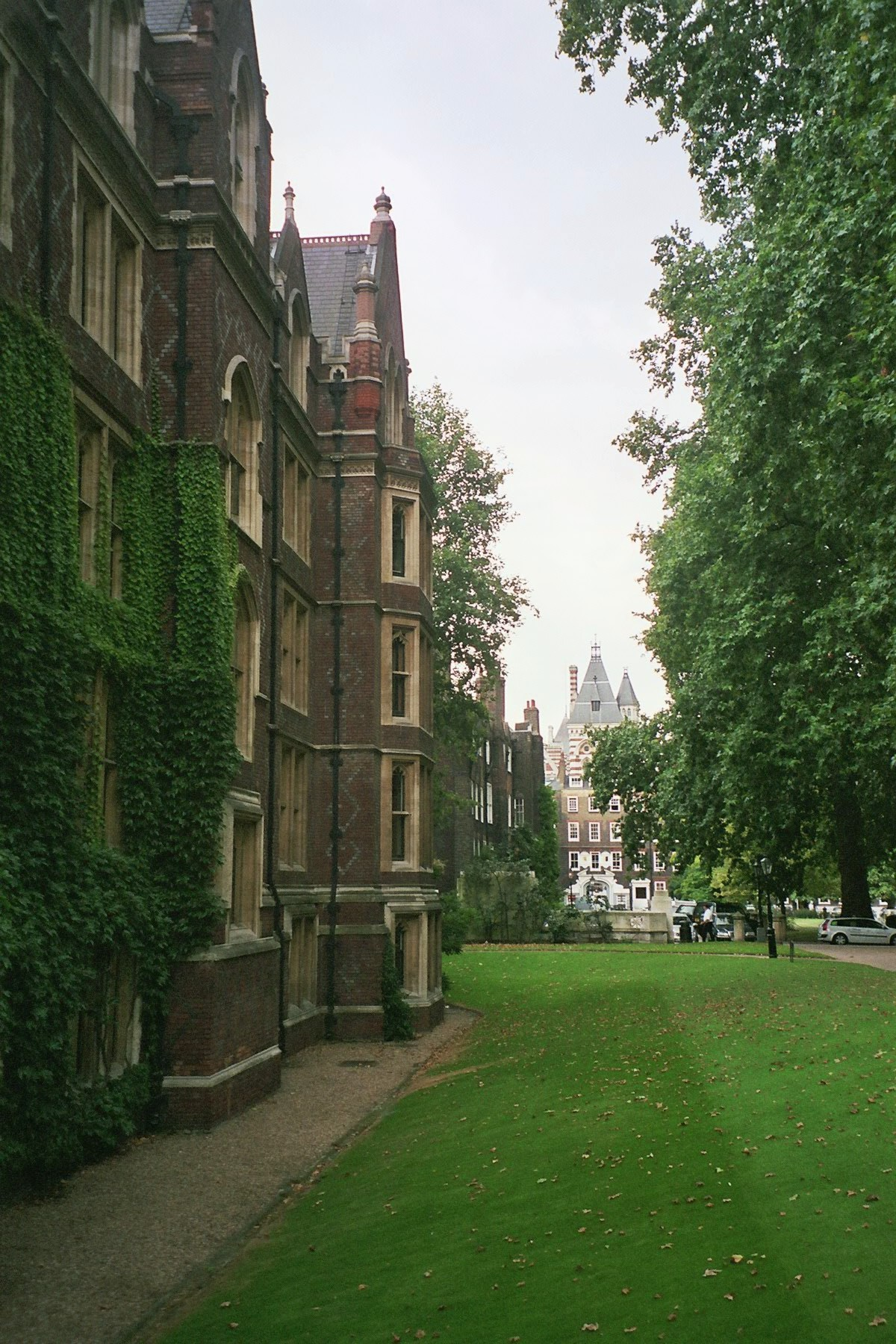 London, Lincoln's Inn ?